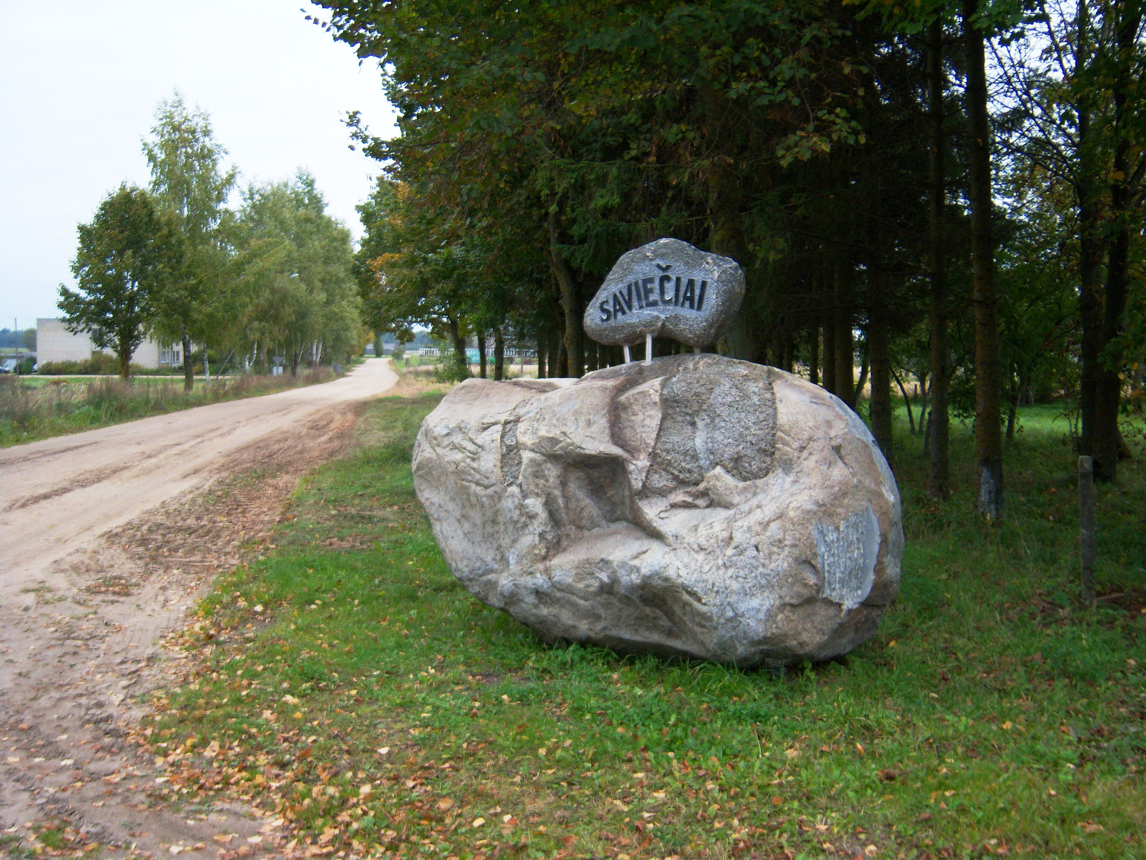 Stone in Saviečiai, Kėdainiai District, Lithuania